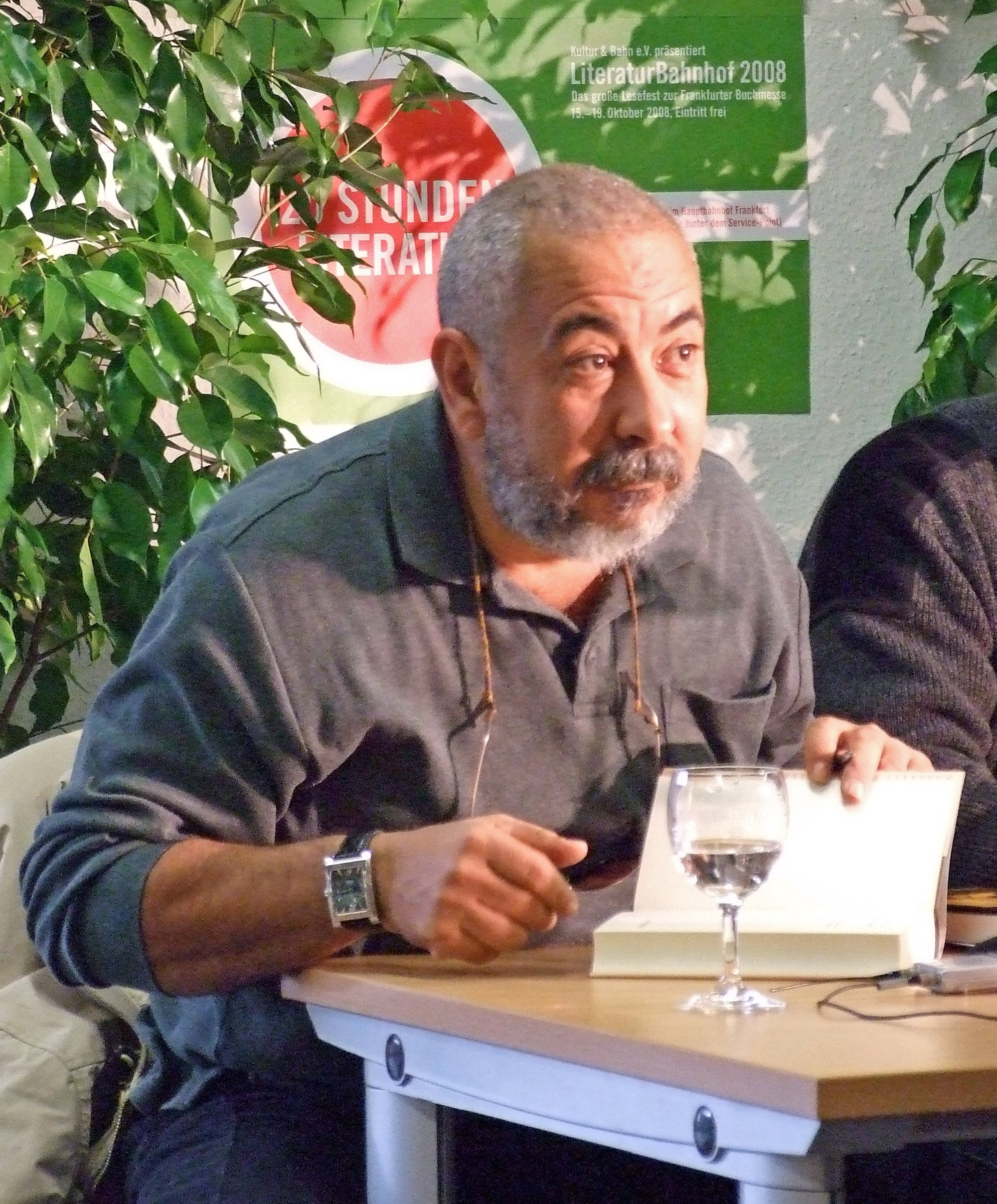 Leonardo Padura Fuentes at Frankfurt am Main (2008)